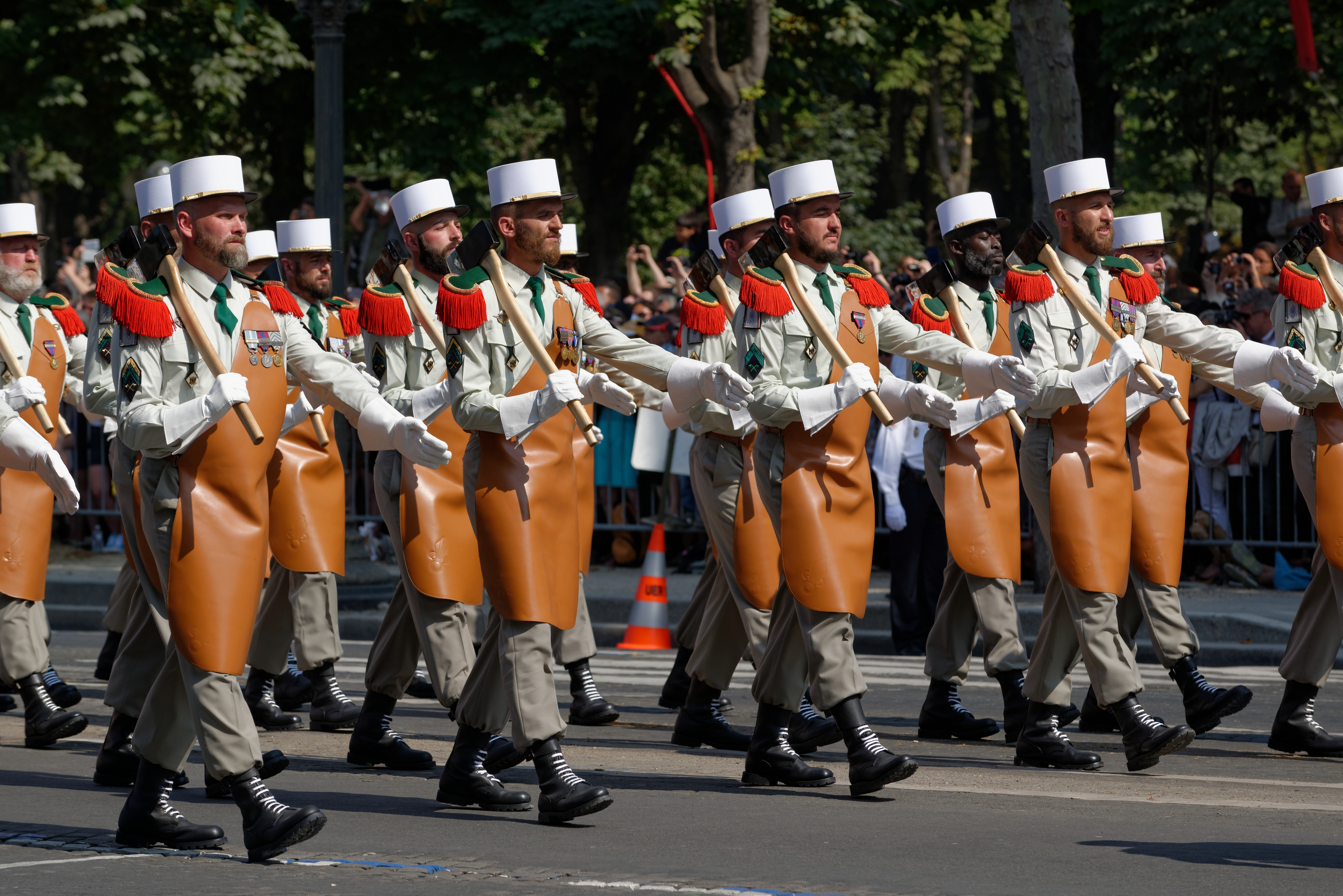 Sappers of the 1st Foreign Regiment take part in the Bastille Day 2013 military parade on the Champs-Élysées in Paris.